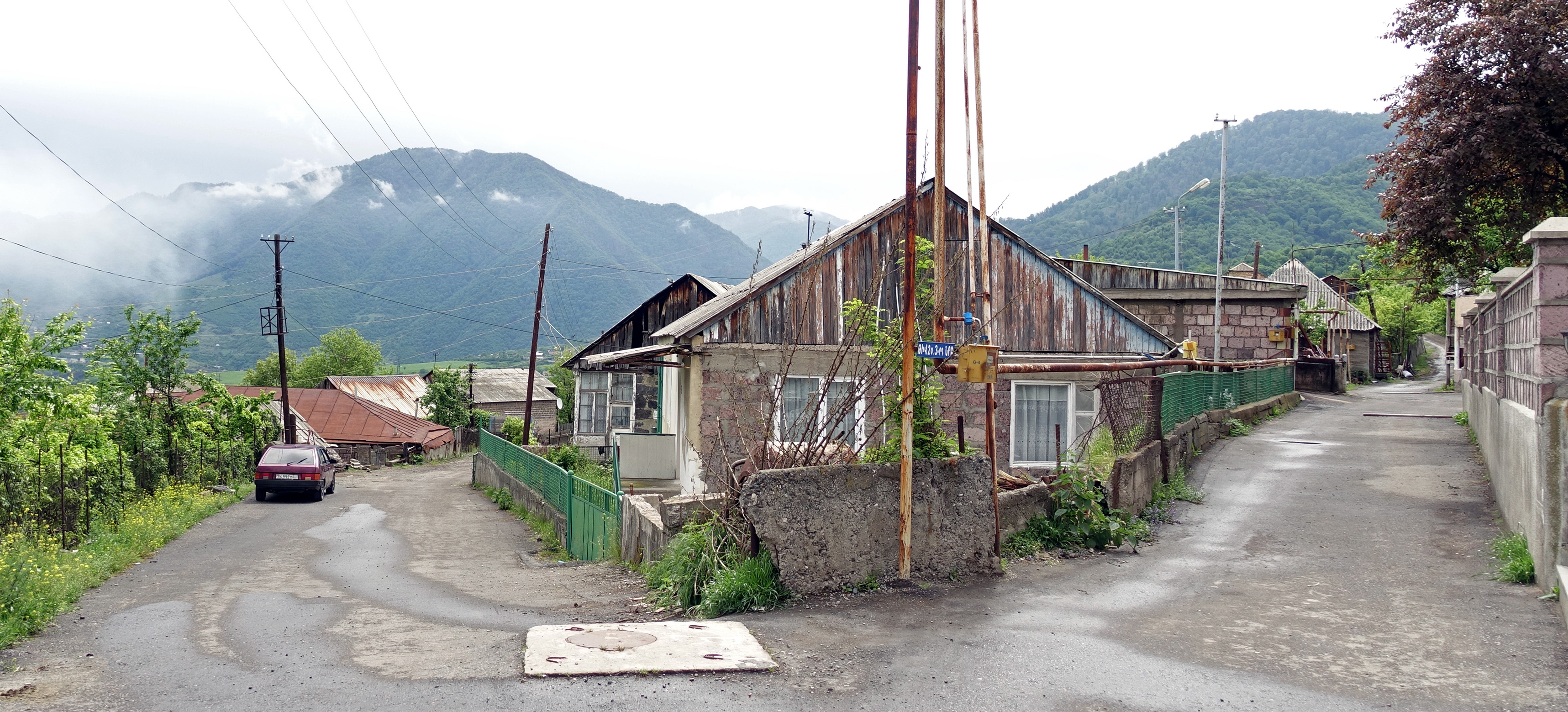 Sanahin village in Alaverdi, Armenia.